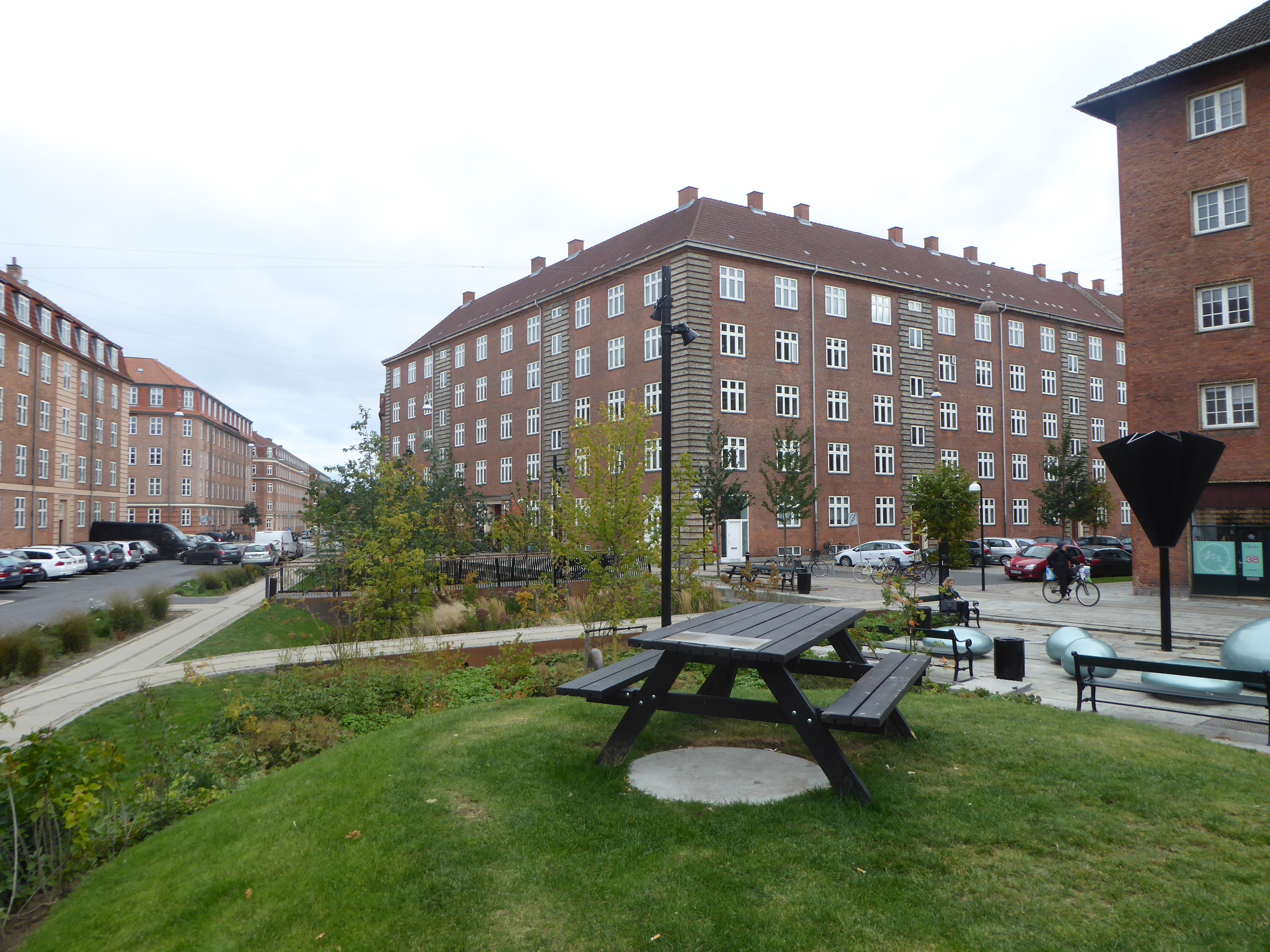 The square Tåsinge Plads in Østerbro in Copenhagen. The buildings behind stands at the street Ourøgade.